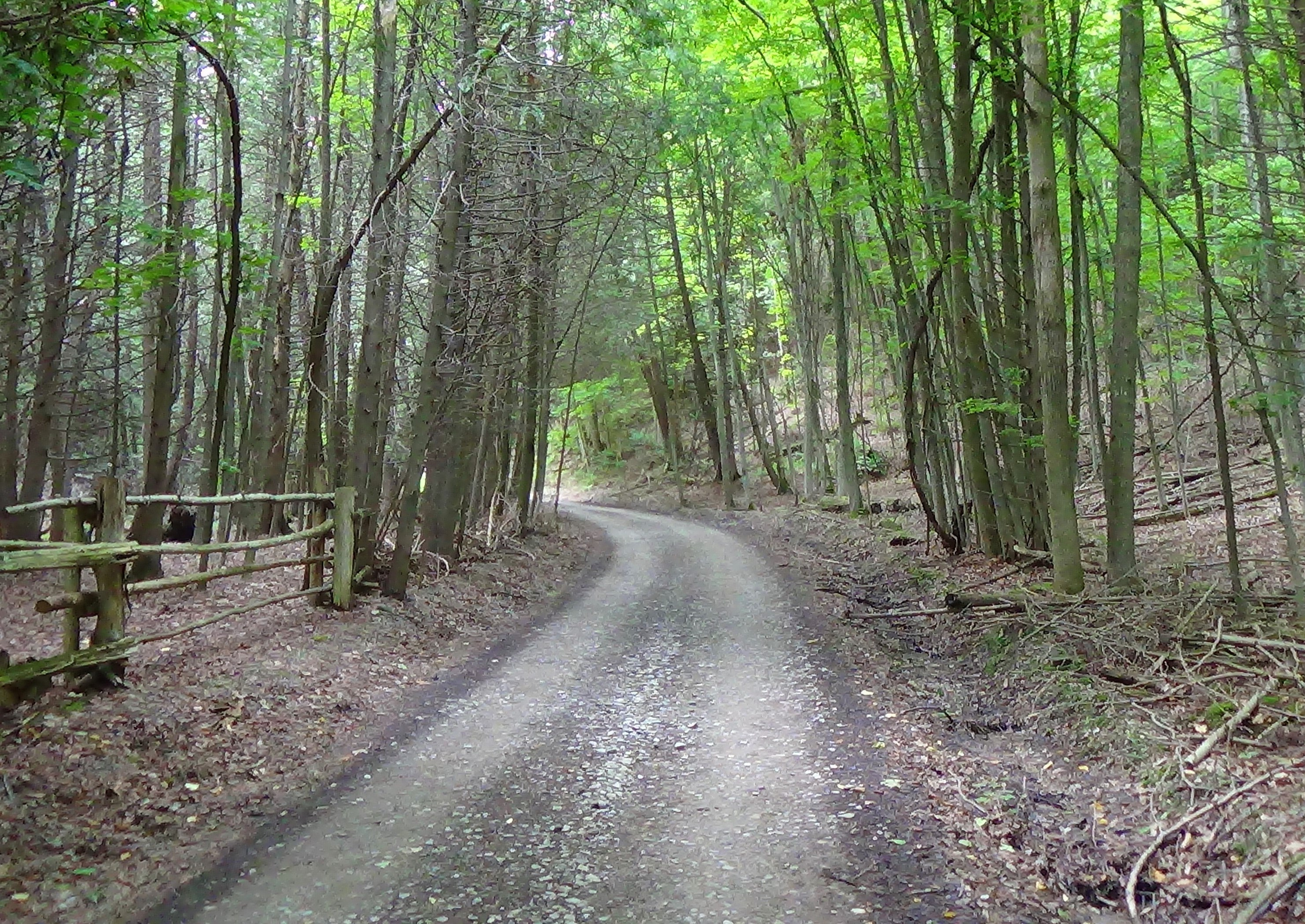 Centre Road (Hurontario Street) in Mulmur Township, Ontario